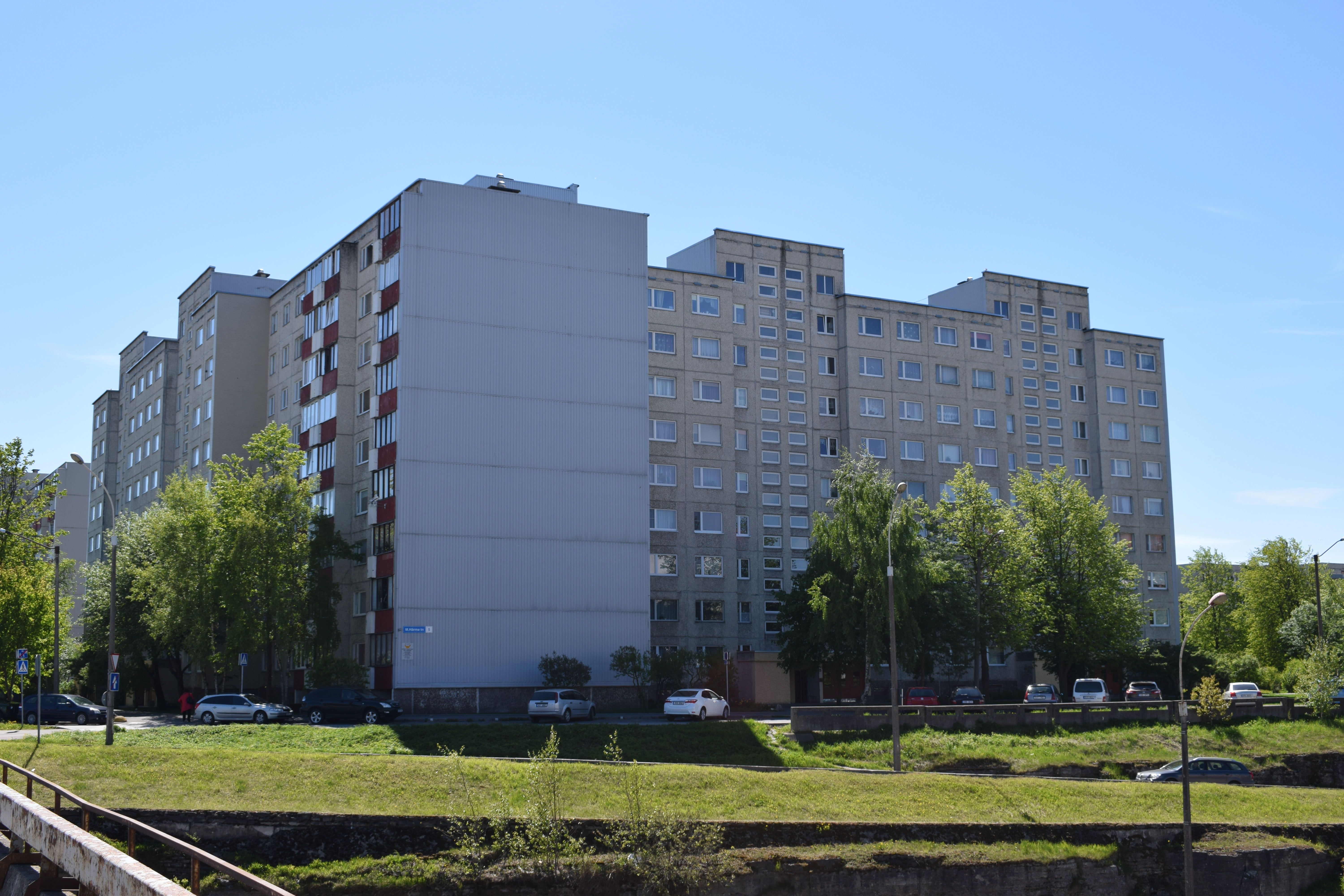 M. Härma 5